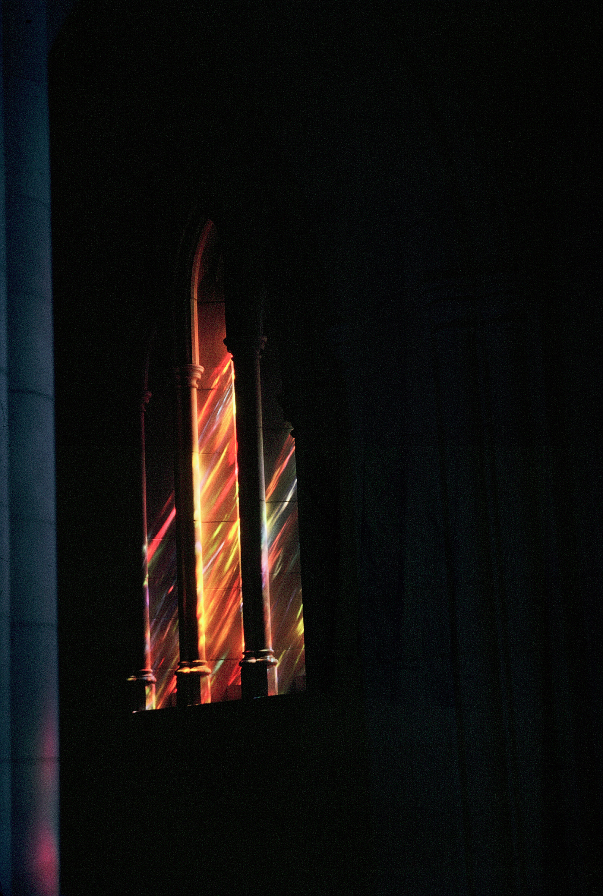 Entrada de luz refractada a través de los vitrales. Light refracted through the glass.